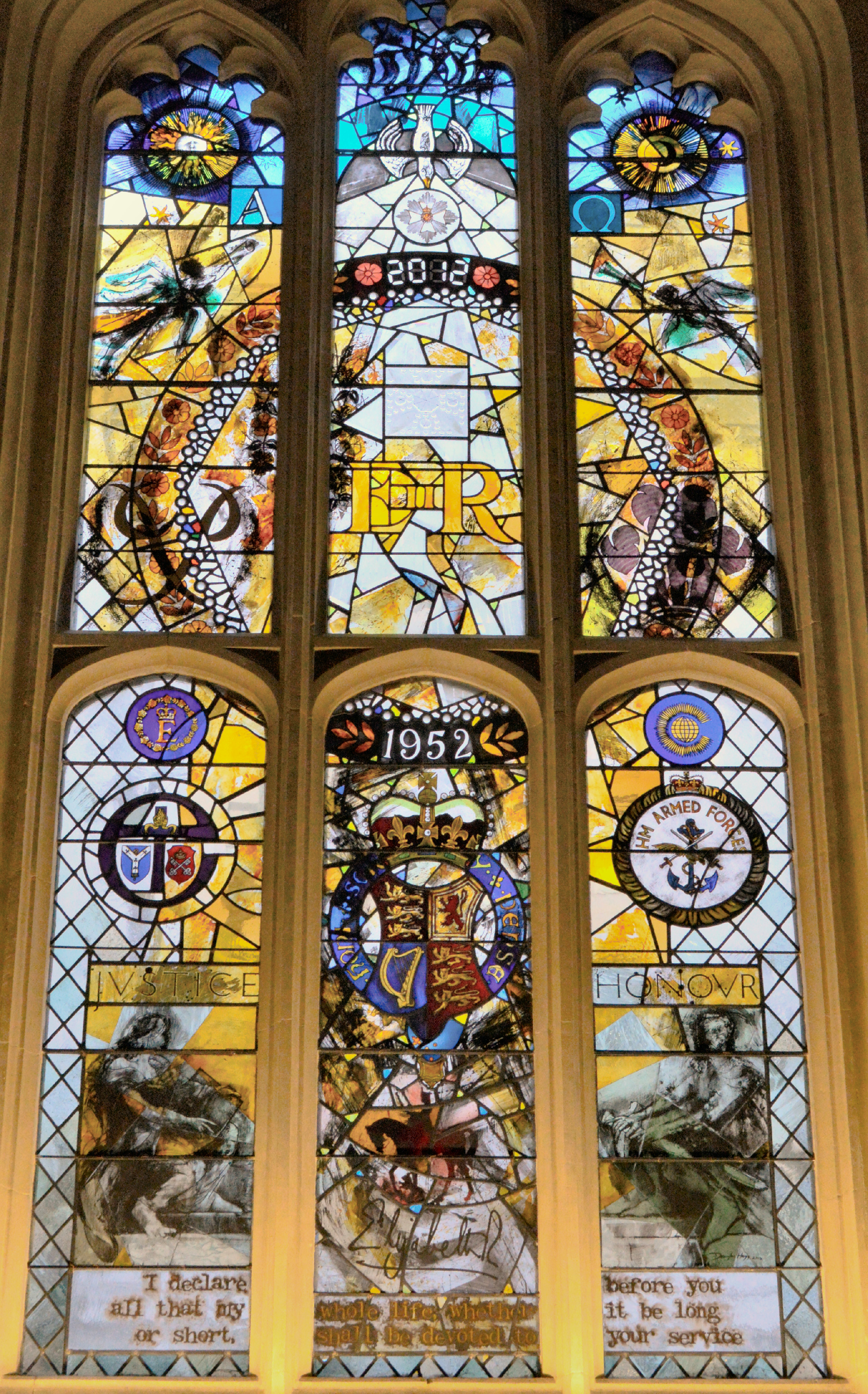 Savoy Chapel, Diamond Jubilee 2012 window by Douglas Hogg.